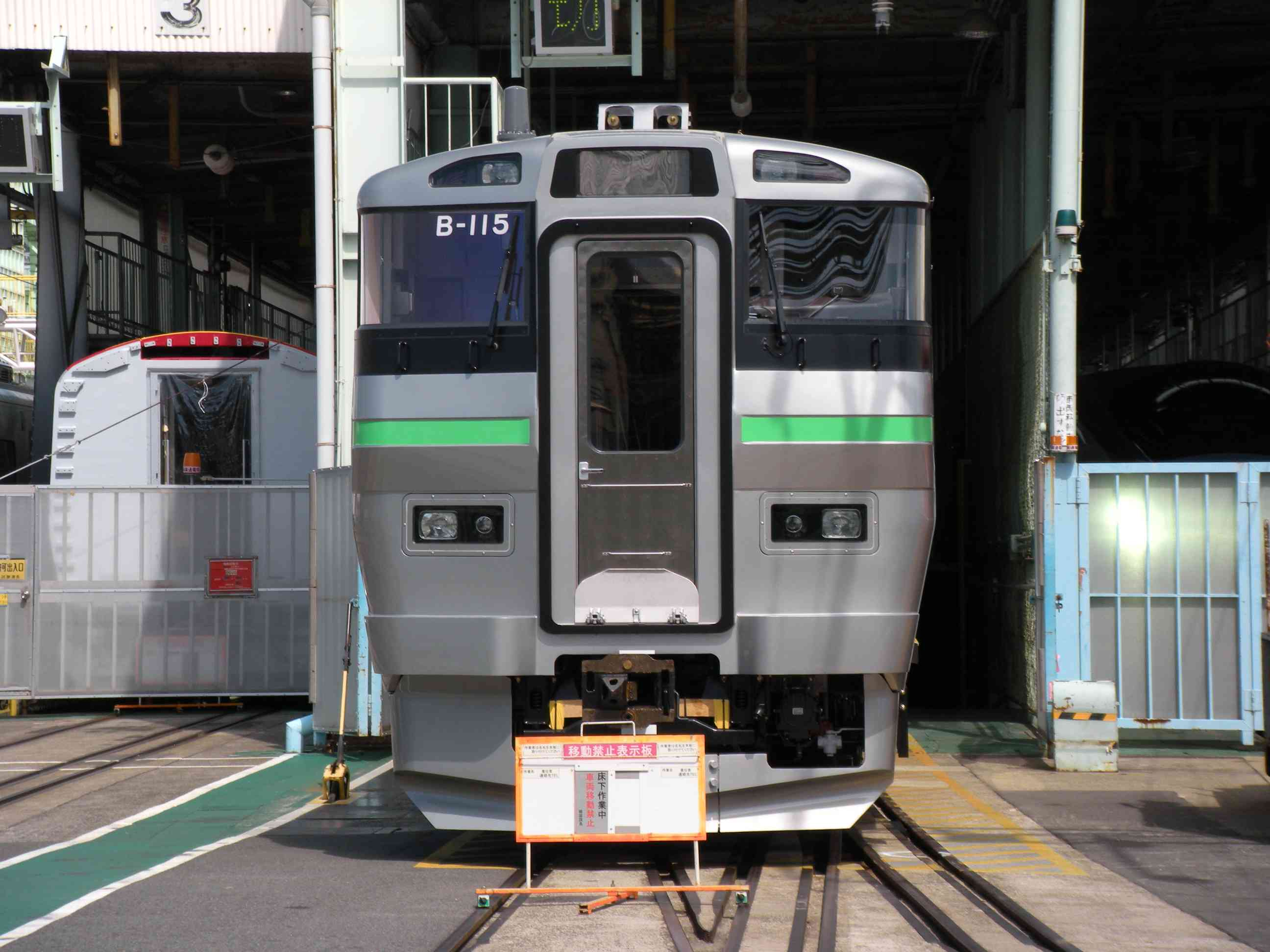 JR Hokkaido 733 series EMU set B-115 nearing completion at the Kawasaki Heavy Industries factory in Kobe